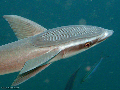 Suction disc of a Slender Suckerfish (Echeneis naucrates). The Bistro, Beqa Lagoon, Fiji